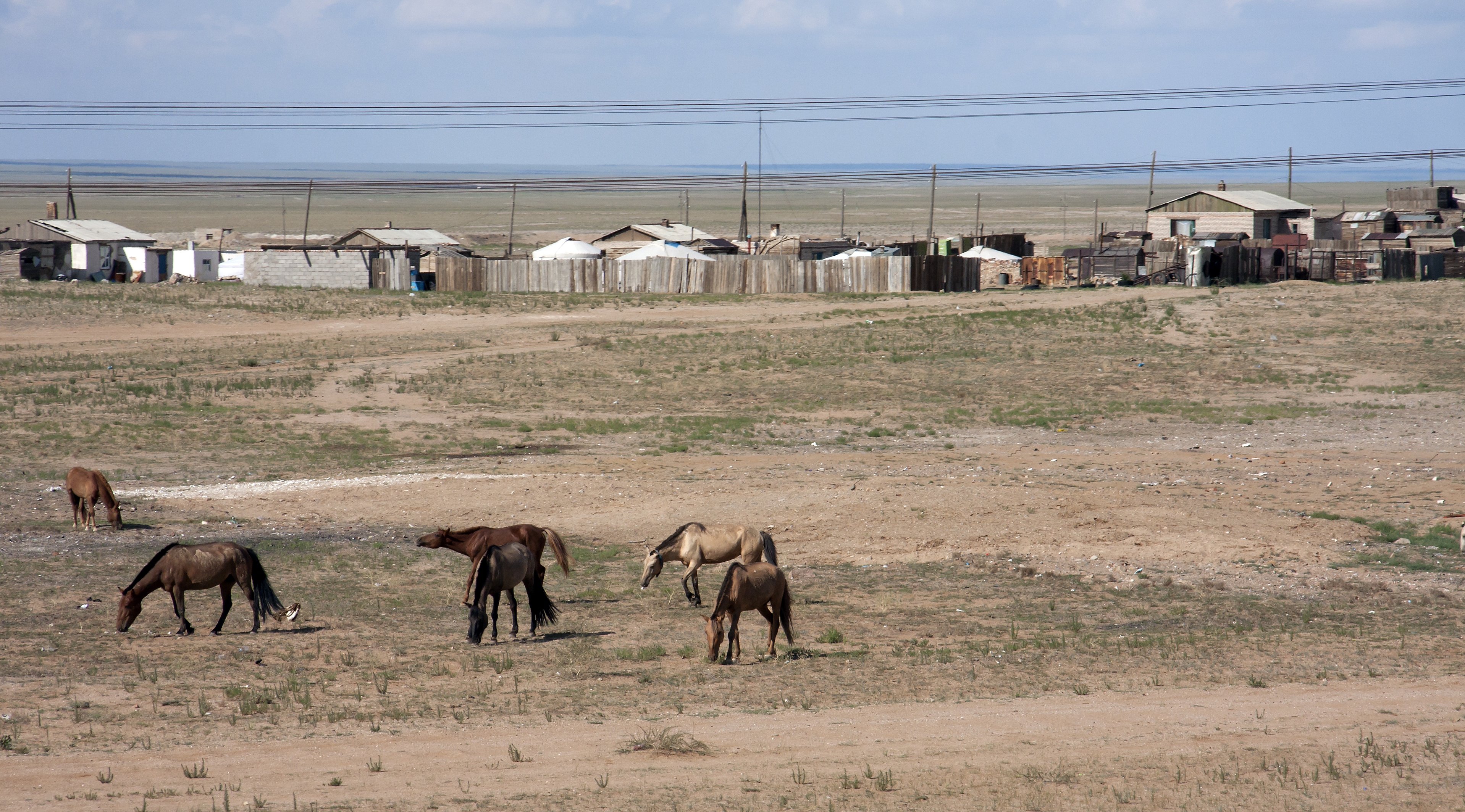 Semi-urban settlement in Örgön sum, Mongolia.